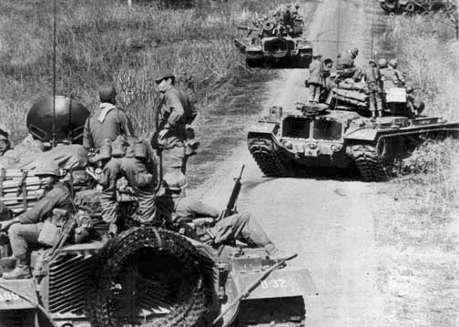 U.S. 25th Infantry Division M-48 Patton tanks in a herringbone formation on a road in Vietnam, west of Pleiku, April 1, 1966.